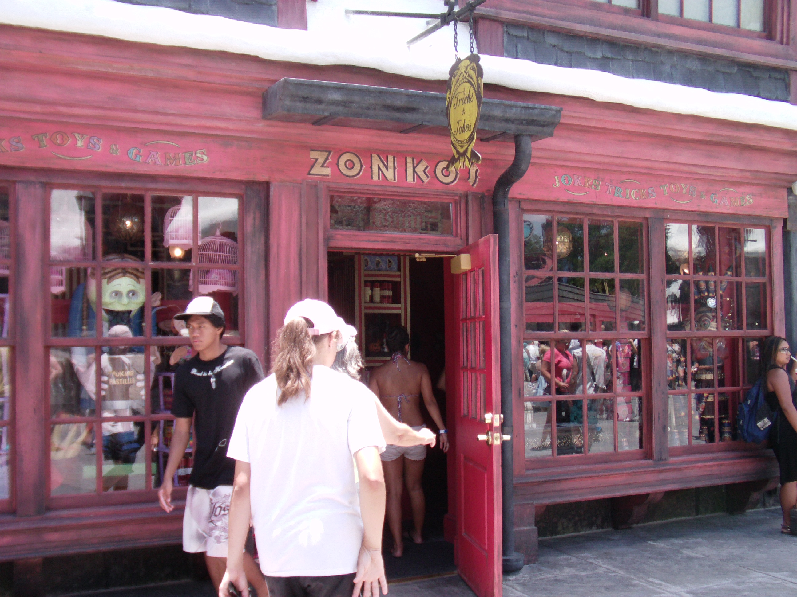 Entrance to Zonko's gift shop at Islands of Adventure.